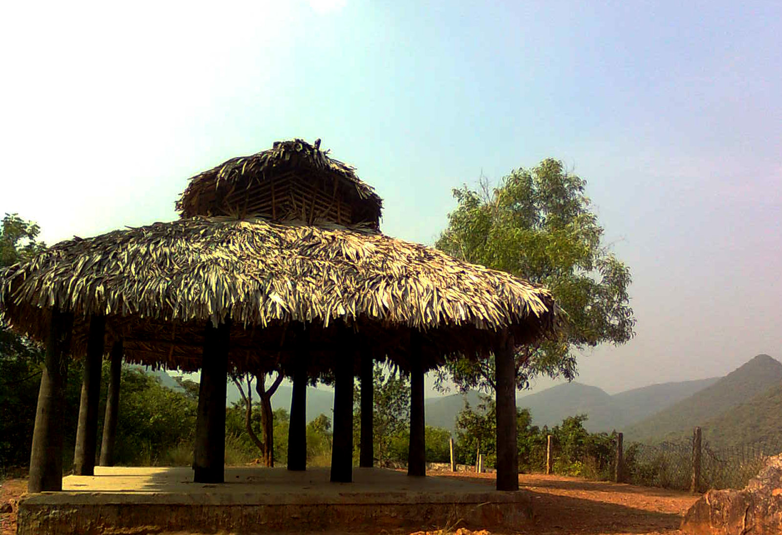 A resting hut at Kambalakonda Eco park in Visakhapatnam